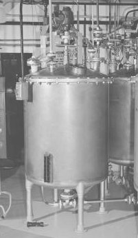 Vessel in which the 1958 Los Alamos process criticality accident (Cecil Kelley) occurred